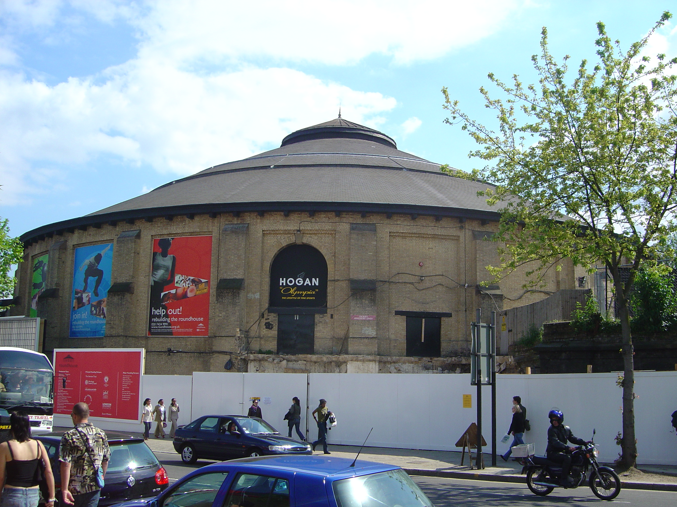 Roundhouse - Camden